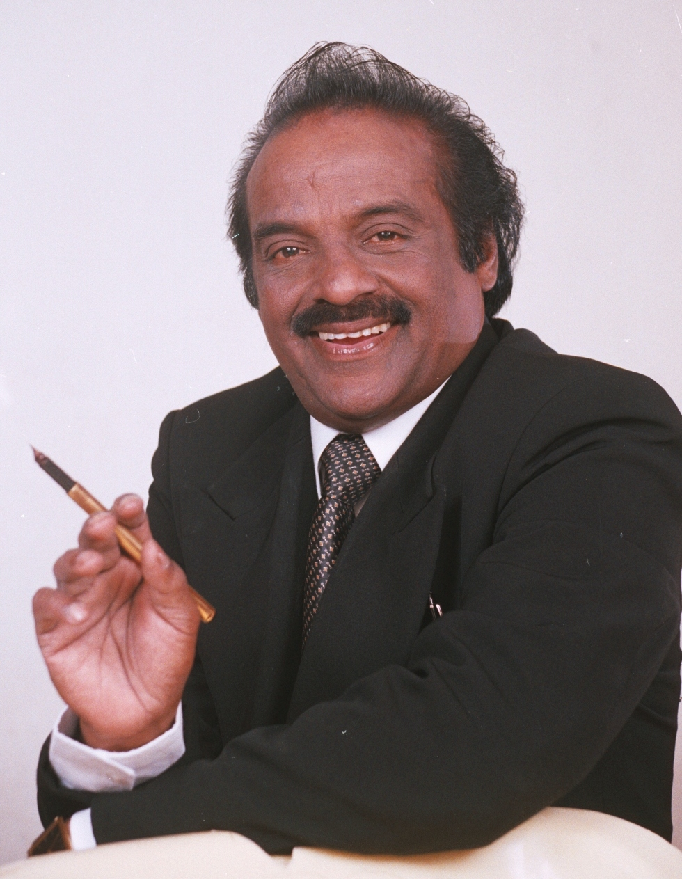 H. Vasanthakumar, a personality, a legend who came up by his hardworks and served the common people to their prosperity.